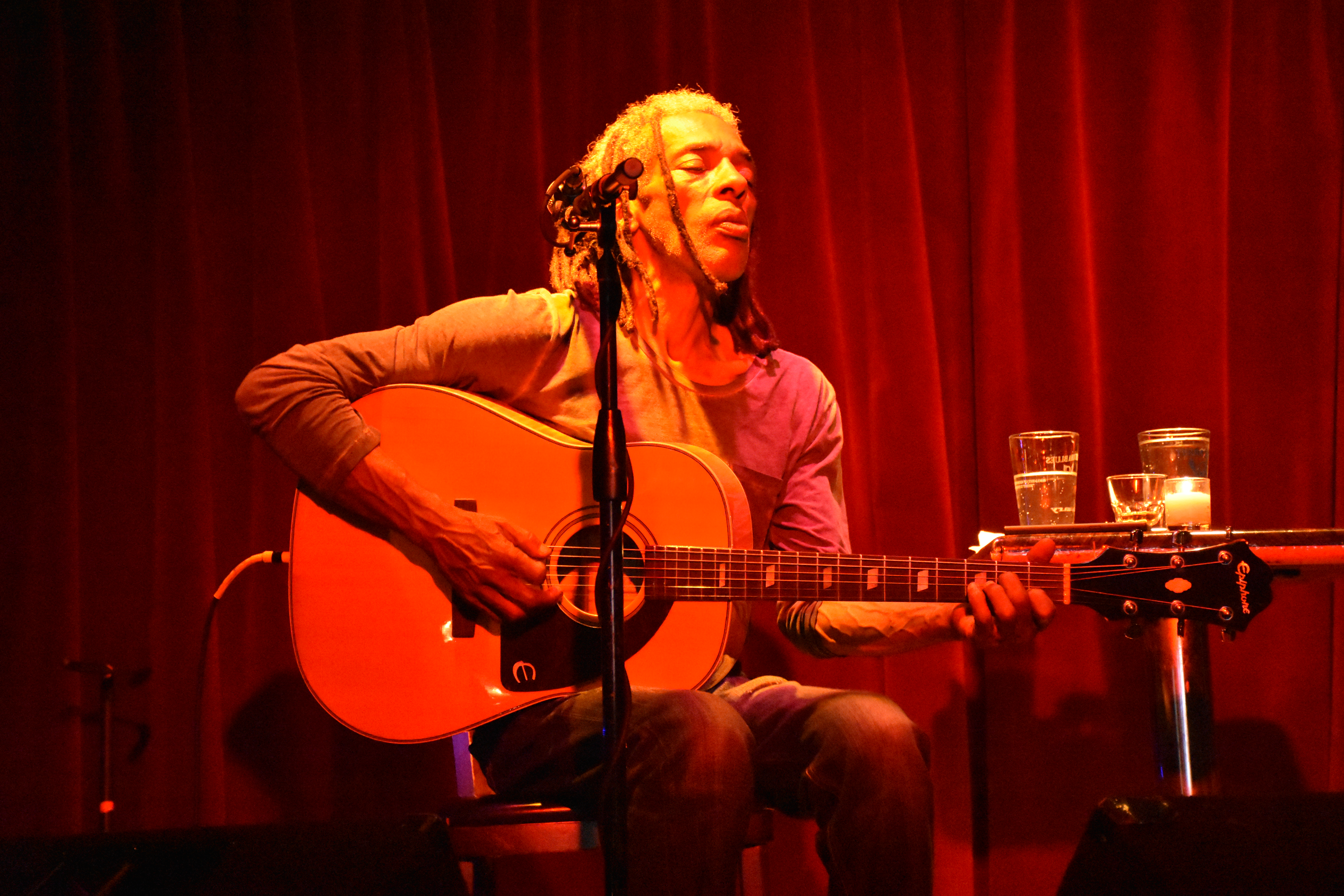 Clarence Spady performaing at Terra Blues, New York City